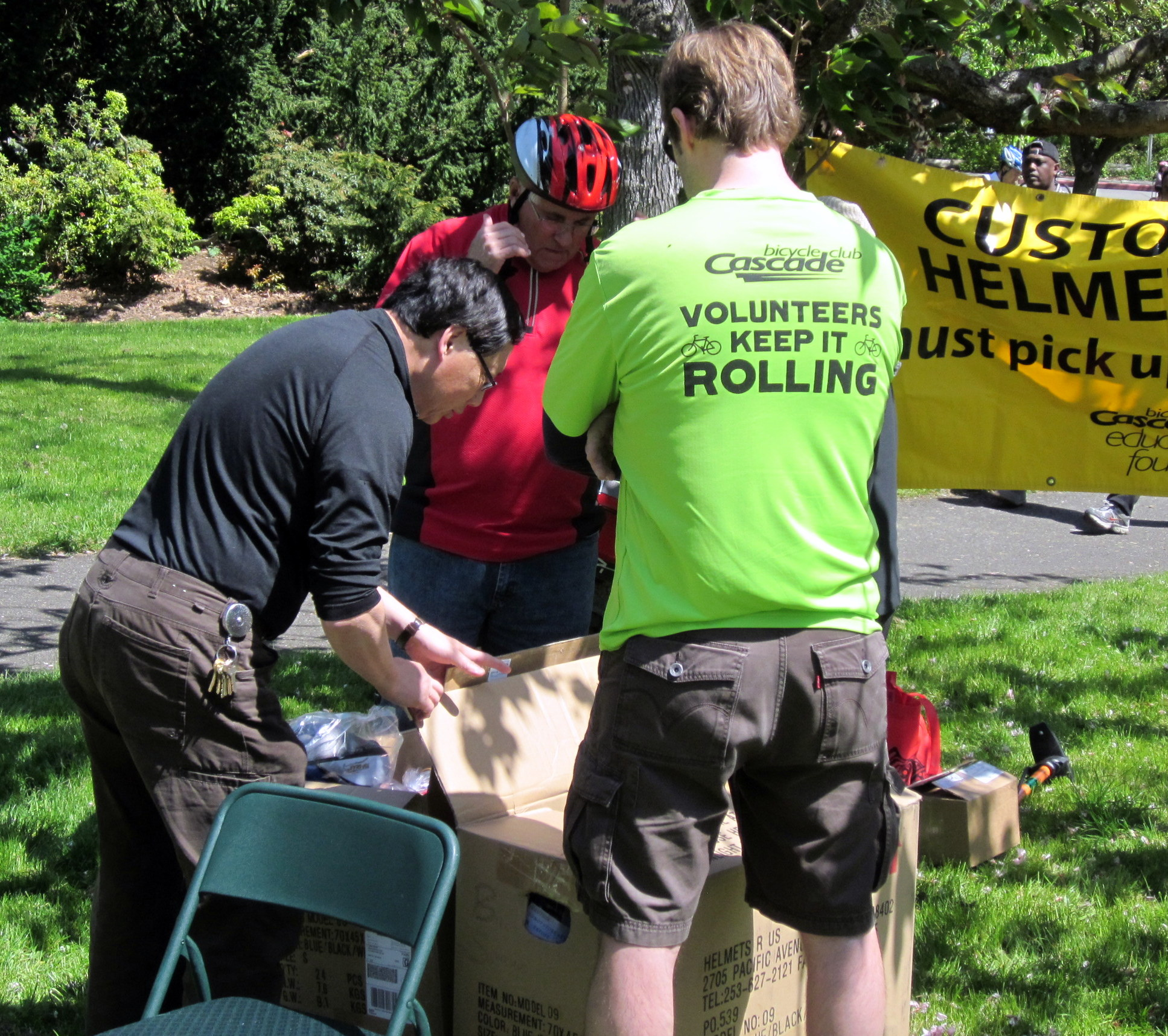 Seattle closes off Lake Washington Boulevard to cars for 12 Sundays in 2012. This first Sunday was unusually sunny for Seattle, so it drew lots of participants. Cascade Bicycle Club attends all the events to sell low-cost helmets.